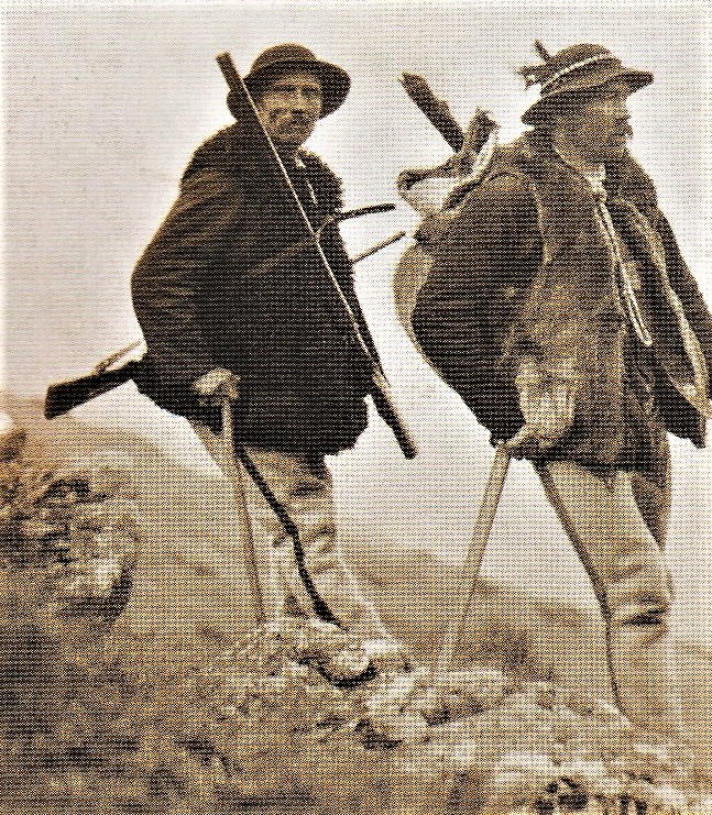 Gorals poachers and Maciej Sieczka Kulawy a M.Majerczyk (Poland)